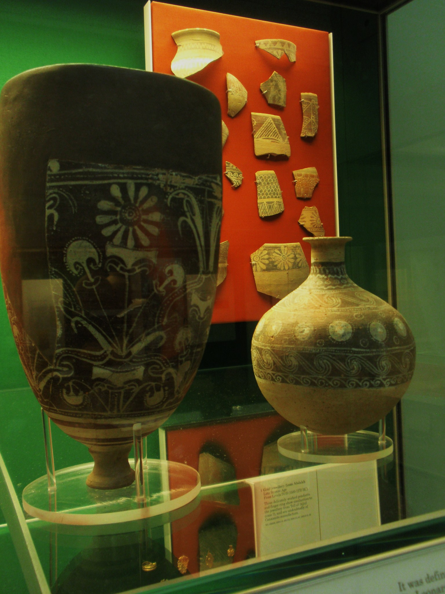 from ancient city of alalakh,turkey-British Museum